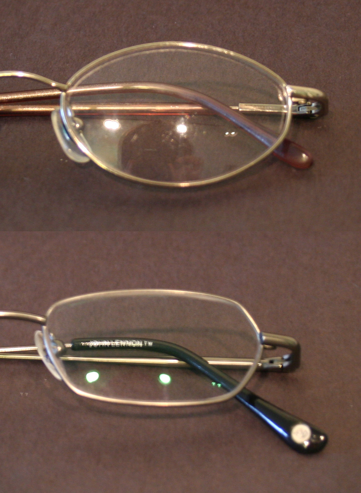 Comparison between a glasses lens without anti-reflective coating (top) and a lens with anti-reflective coating (bottom). Note the reflection of the photographer in the top lens and the tinted reflection in the bottom.